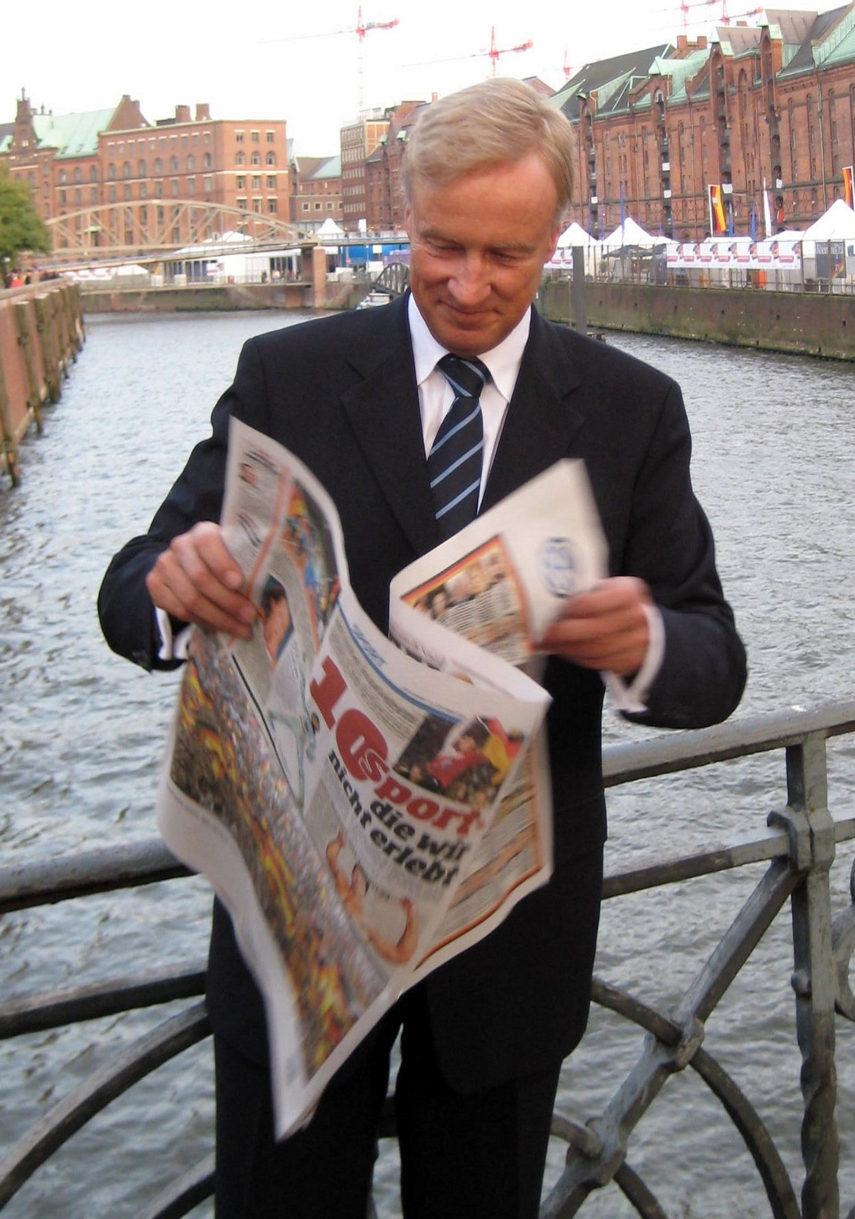 Ole von Beust